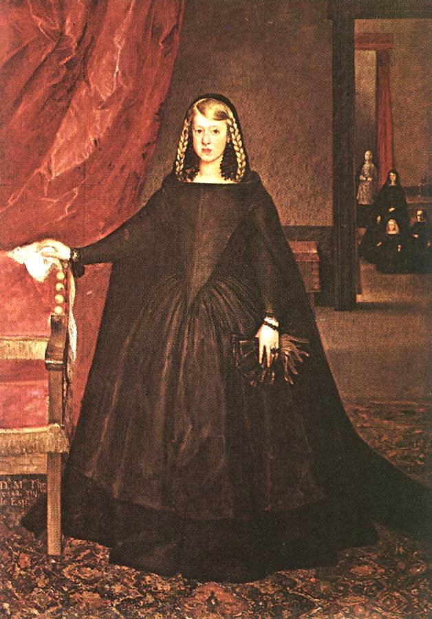 The sitter is Margaret of Spain, first wife of Leopold I, Holy Roman Emperor, wearing mourning dress for her father, Philip IV of Spain, with children and attendants in mourning dress.